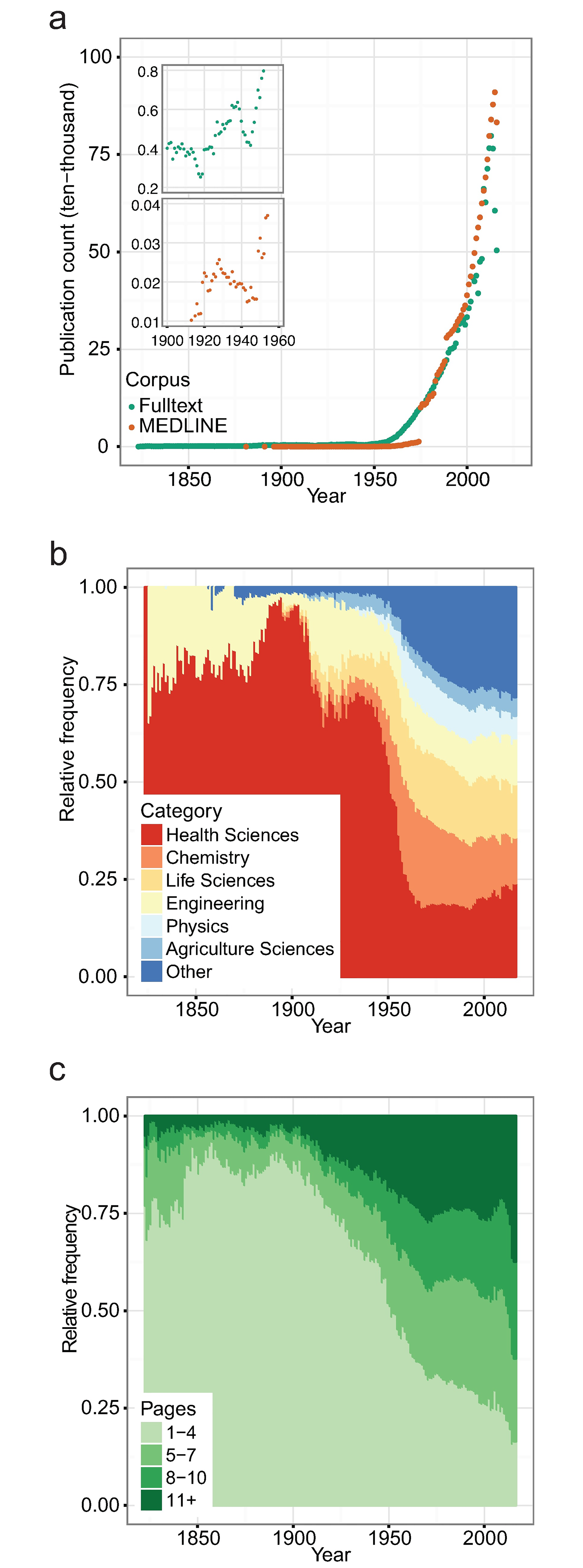 Fig 1. Temporal corpus statistics derived from articles passing the pre-processing. (a) Number of publications per year in the period 1823–2016. The full-text corpus encompasses both the PMC and TDM corpus. The growth in publications was found to fit an exponential model. (b) Temporal development in the distribution of six different topical categories in the period 1823–2016. Publications from health science journals made up nearly 75% of all publications until 1950, at which point it started to decrease rapidly. To date, it makes up approximately 25% of the publications in the full-text corpus. (c) Development in the number of pages per article in the period 1823–2016. The range of pages varies from 1–1,572 pages. Until year 1900 the number of one-page articles were increasing, at one point making up 75% of all articles. At the end of the 19th century, the number of one-page articles started to decrease, and by the start of the 21th century they made up less than 20%. Conversely, the number of articles with 11+ pages has been increasing, and by the start of the 21th century made up more than 20% of all articles.